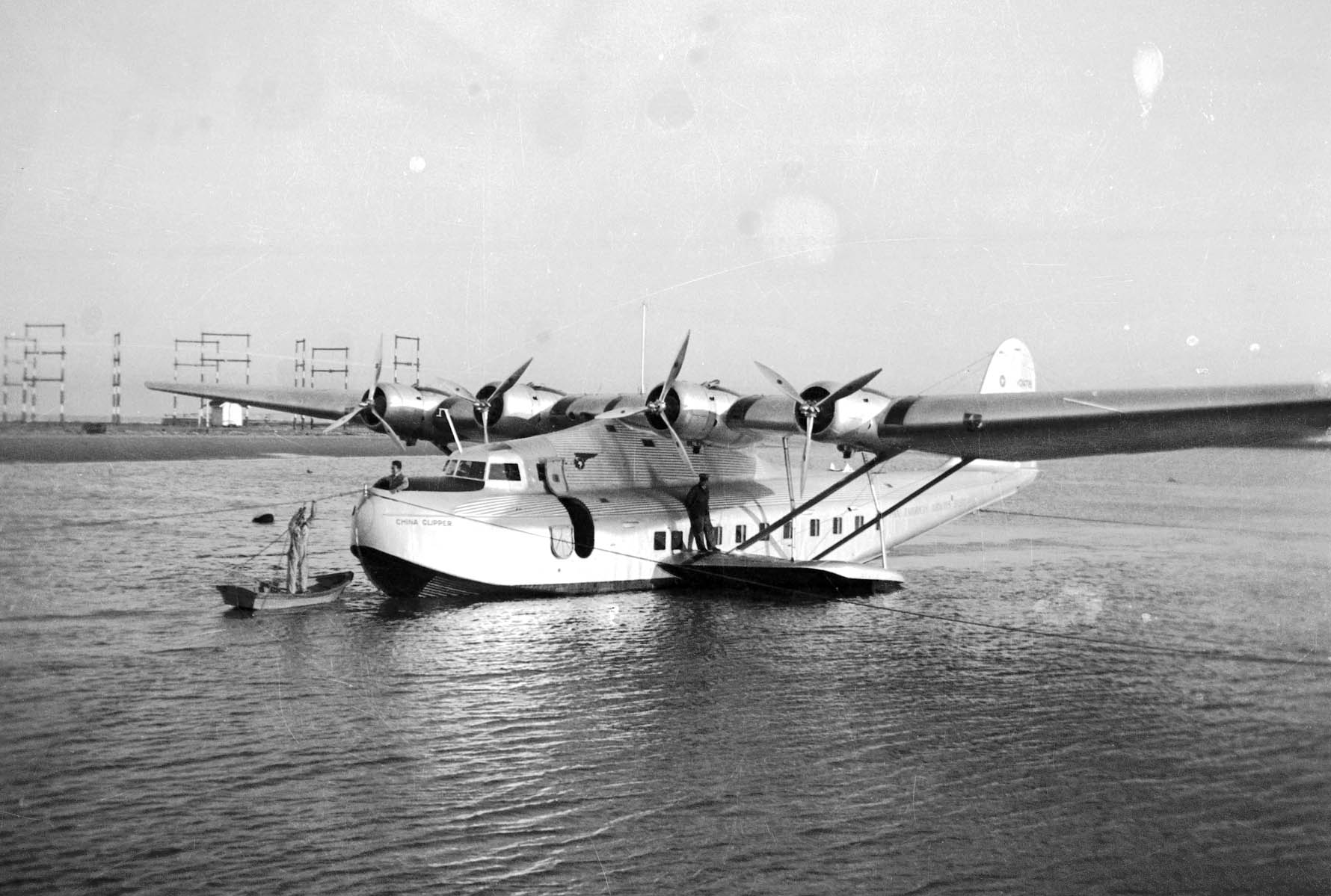 The one and only China Clipper at Alameda in 1936. This was Pan Am's name for this airplane but unfortunately due to the movie China Clipper and a lot of misinformation all of the Martin 130's are now often called "China Clippers". I just "found" this neg that has been missing for some time so today is a great day. I took this with a 620 Box Brownie at age 14 so you see it can be done. And I am still doing it at 89 with great enjoyment. And, yes, I still have that camera.